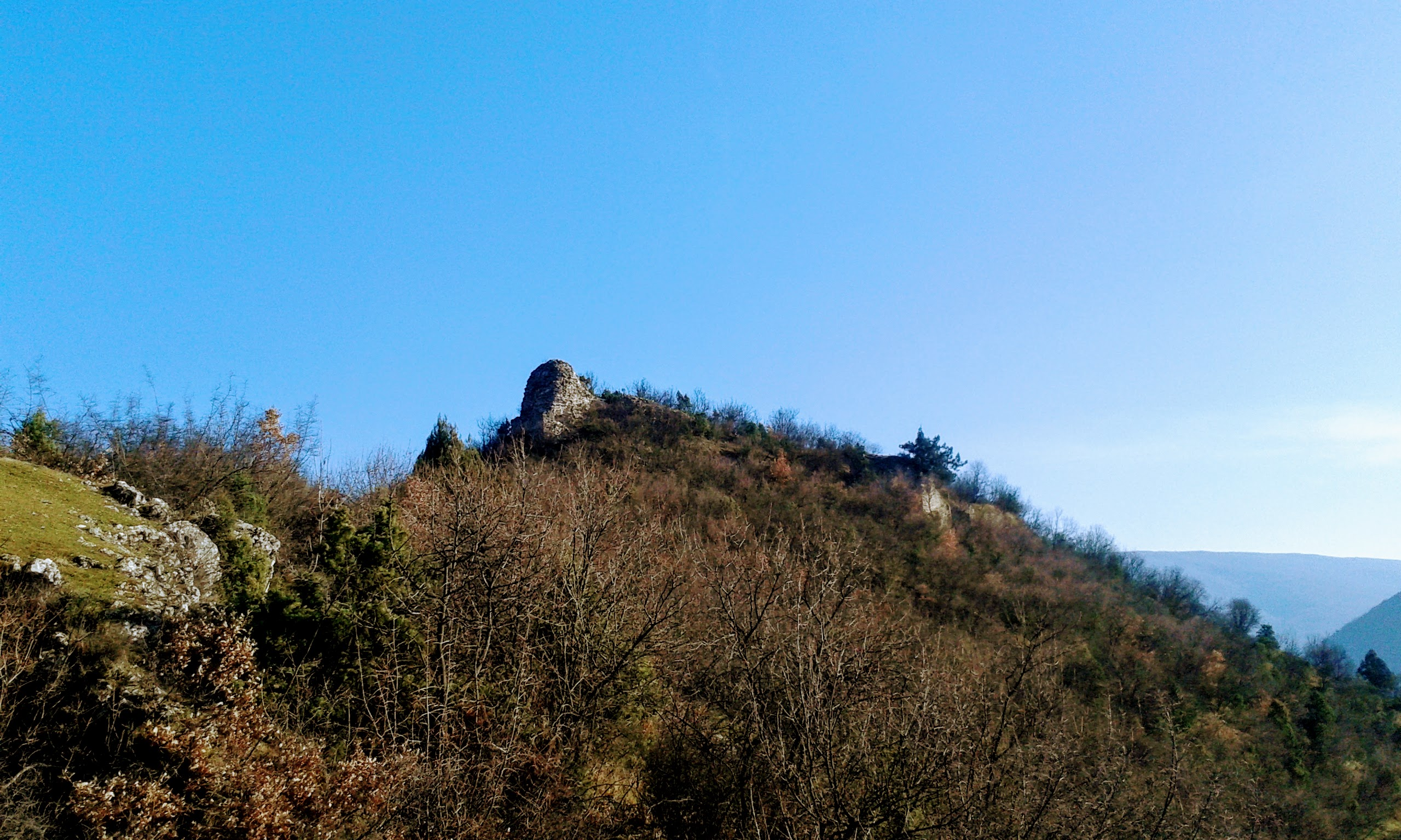 Part of our project Veloexpeditions in 2016